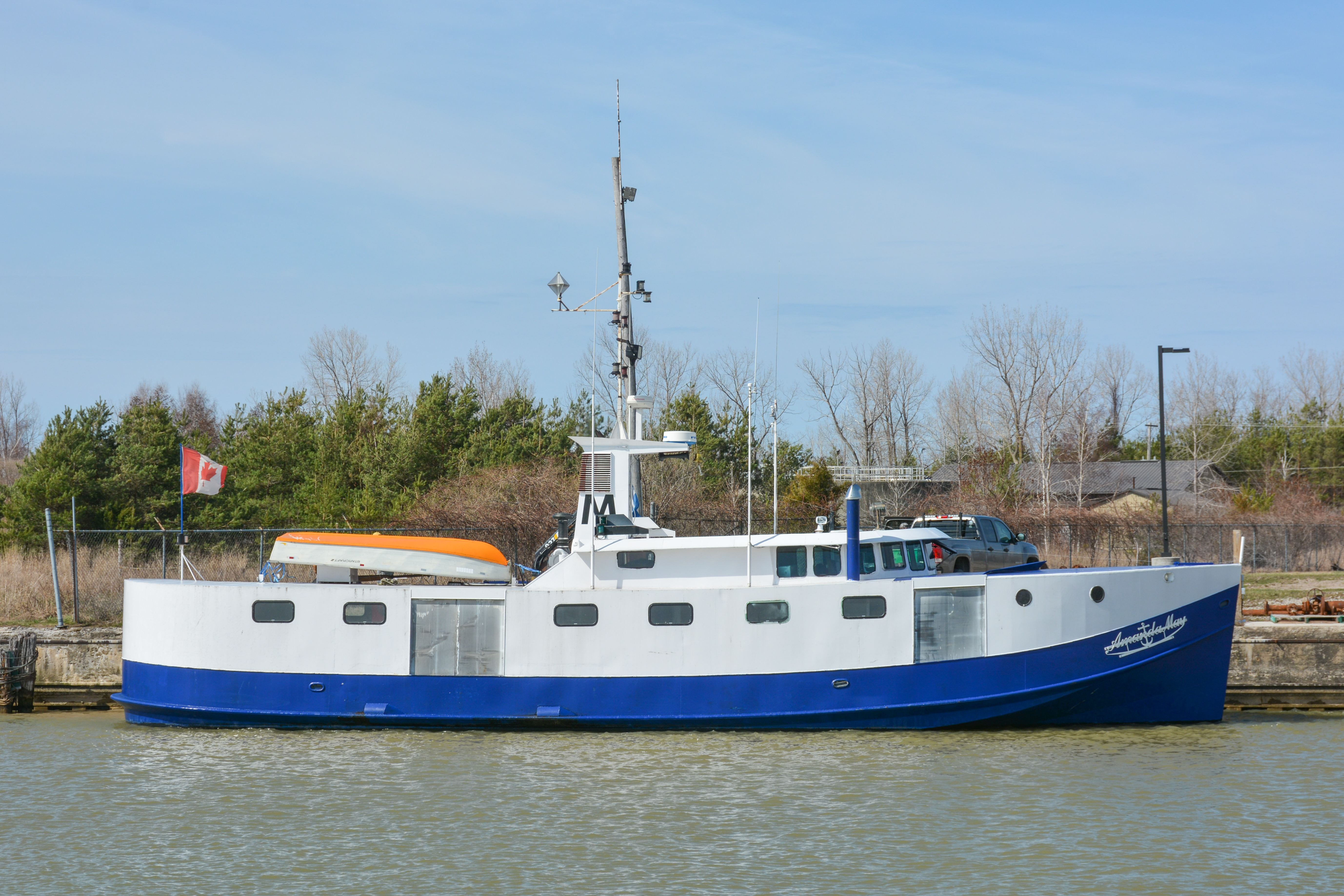 Modern fish tug, AMANDA MAY of Windsor at dock in Port Burwell, Ontario Canada - April 19, 2015.